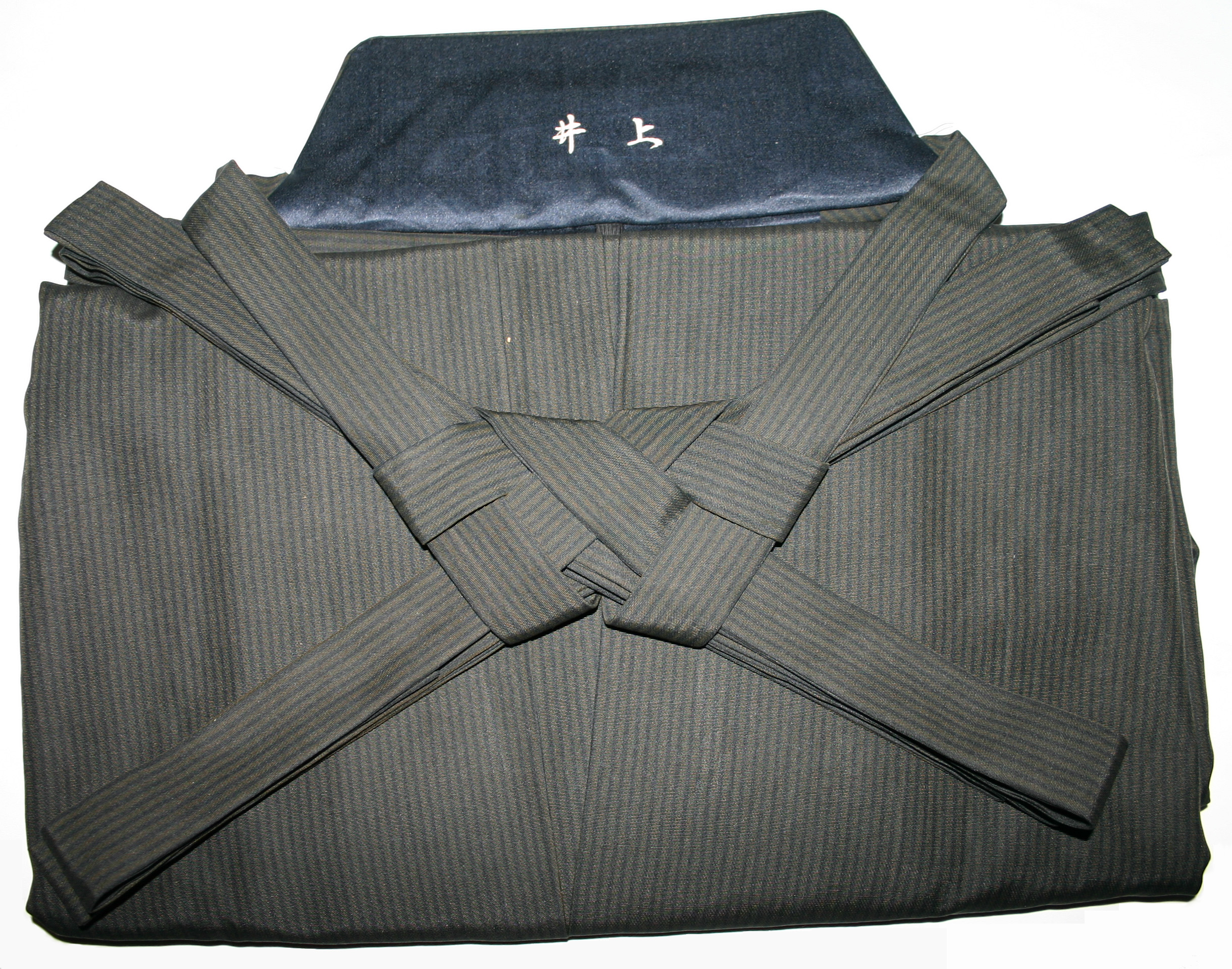 A folded Japanesa hakama. Photographed by self.